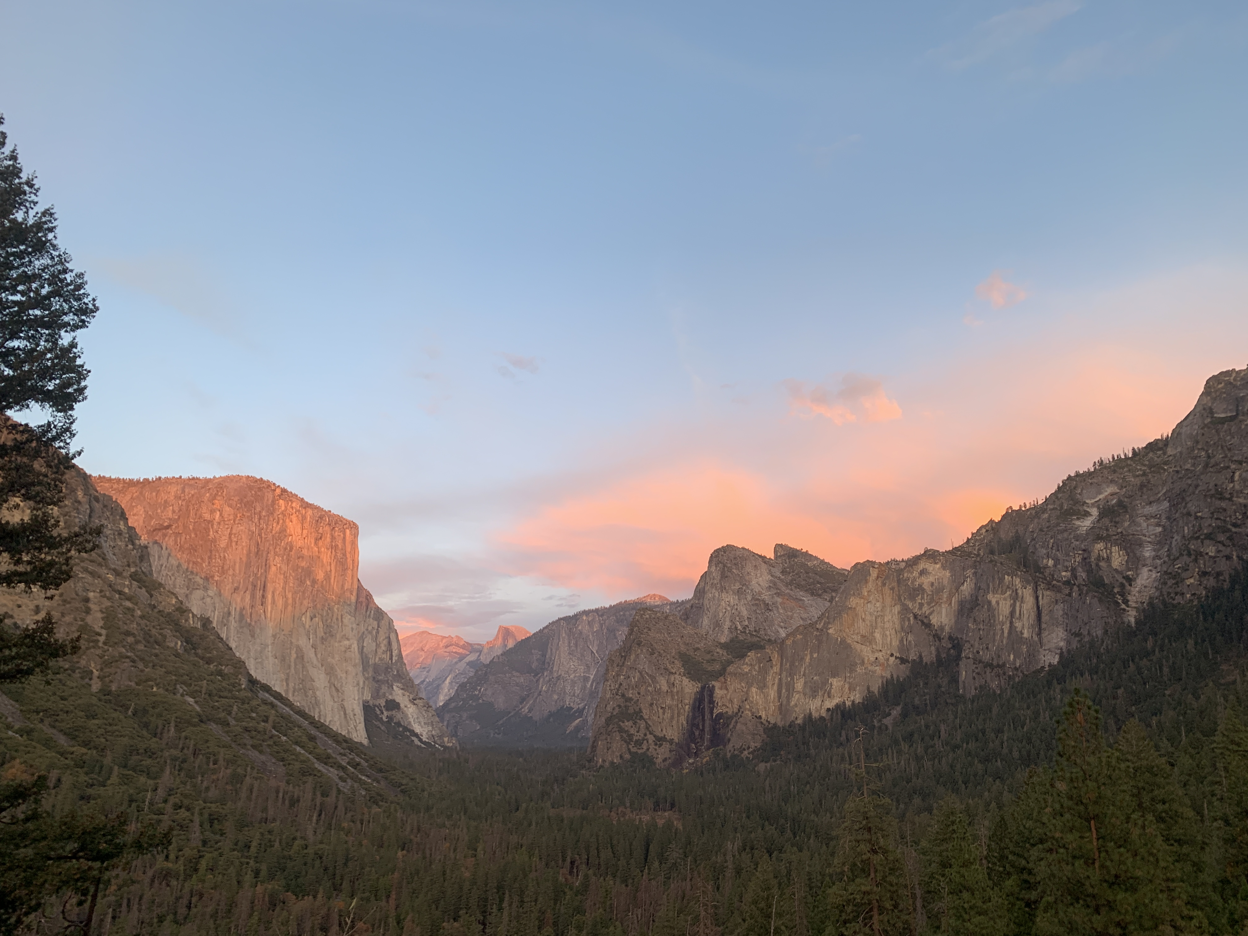 El Capitan from Tunnel View, 2019